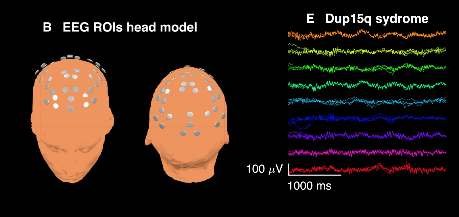 if people wants to know about beta wave in brain this is good source.